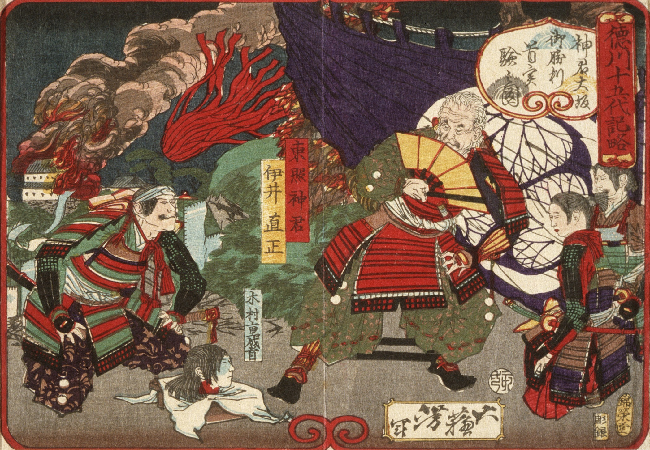 Japan, 7/1875 Series: Brief Account of the Rulers of the Tokugawa Clan Prints; woodcuts Color woodblock print Herbert R. Cole Collection (M.84.31.330) Japanese Art